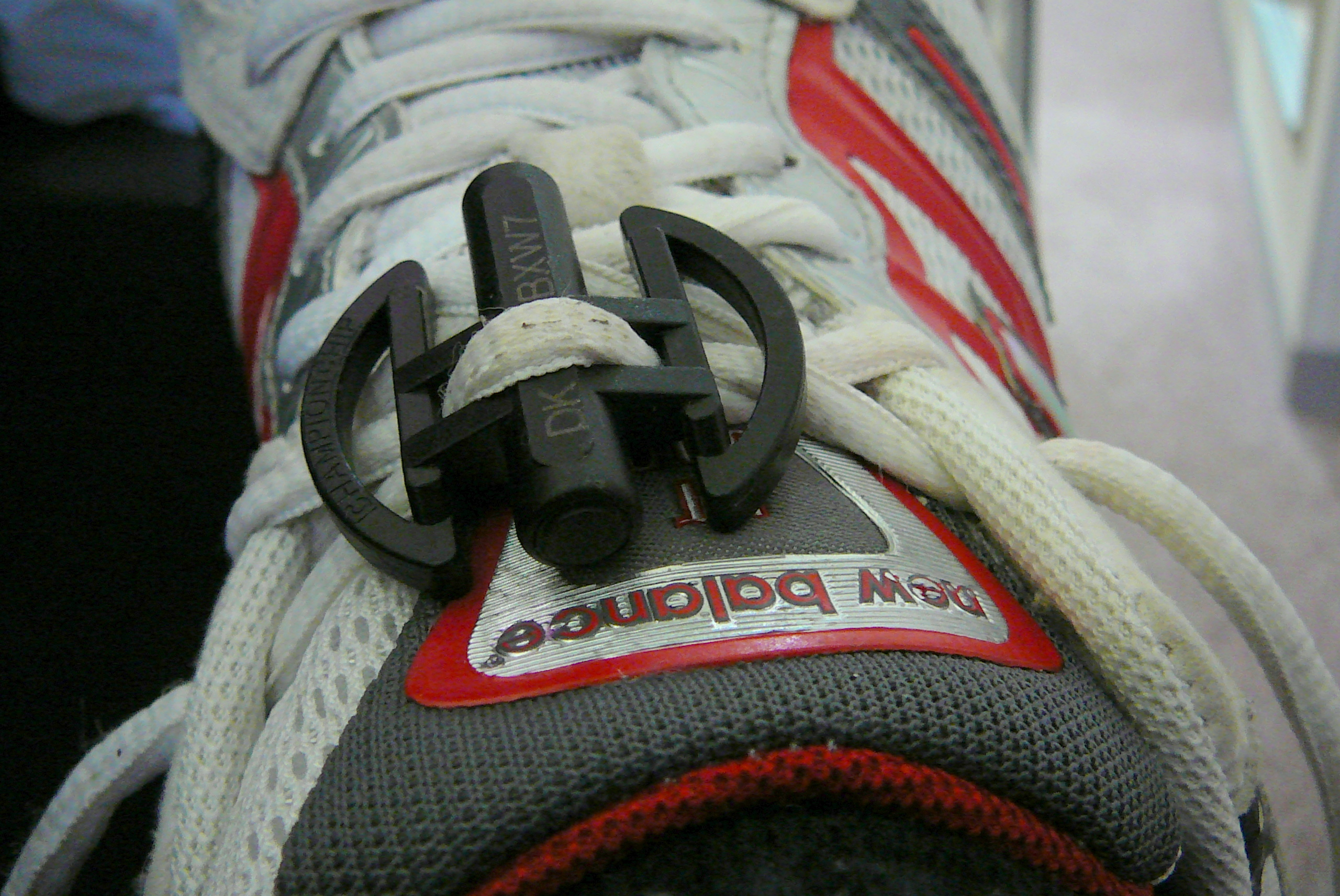 marathon timing chip